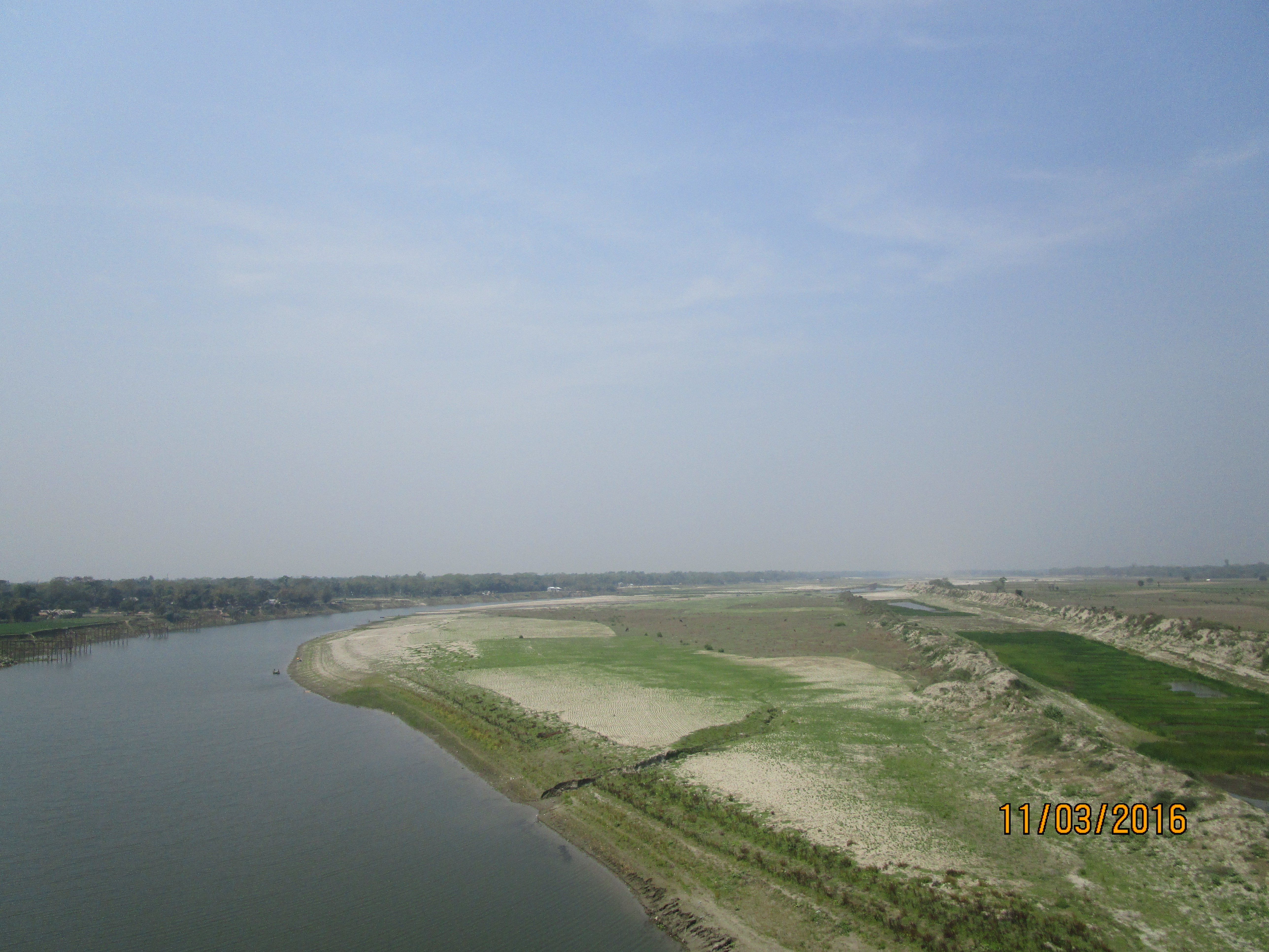 Old Brahmmaputra River upstream side, image taken from the Gafargaon bridge